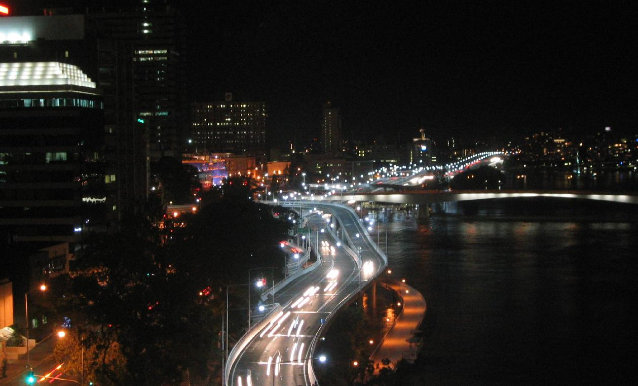 Brisbane Riverside Expressway